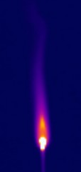 Thermography of a branding matchg